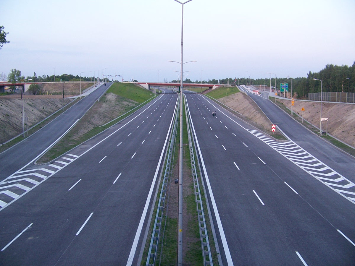 Drogowa Trasa Średnicowa in Ruda Śląska, for a few days before opening.